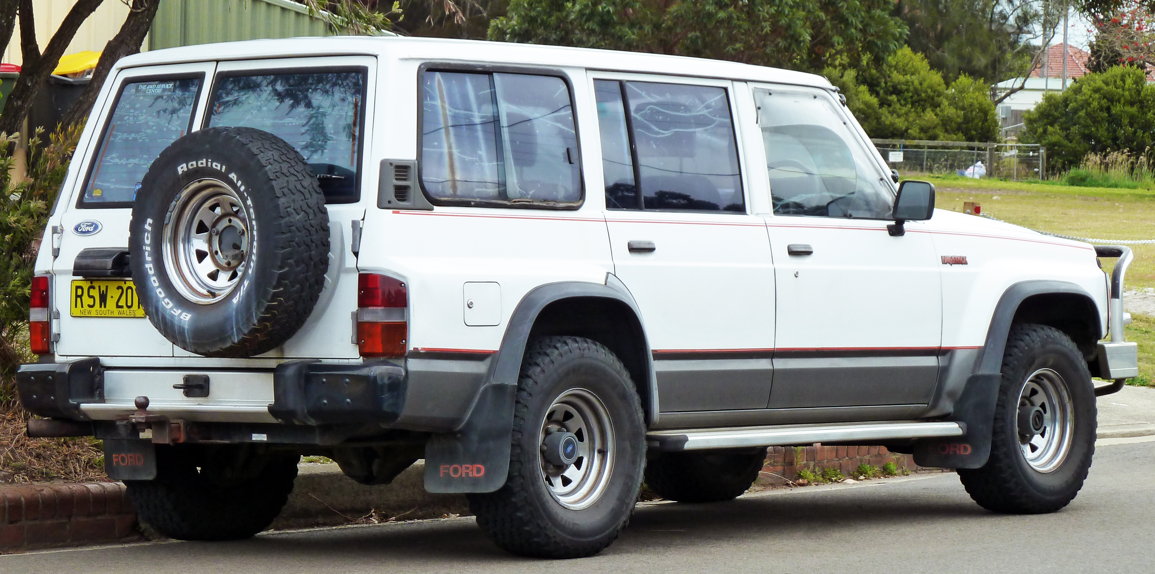 1991 Ford Maverick wagon. Photographed in Sans Souci, New South Wales, Australia.